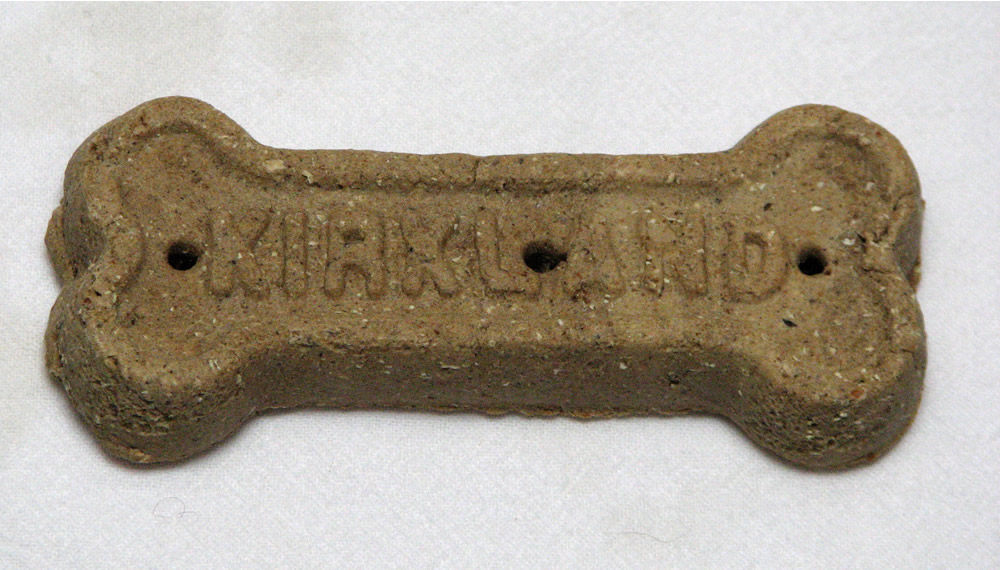 Dog biscuit.